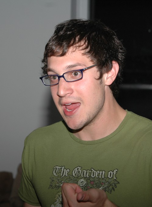 Comedy Central's Premium Blend.